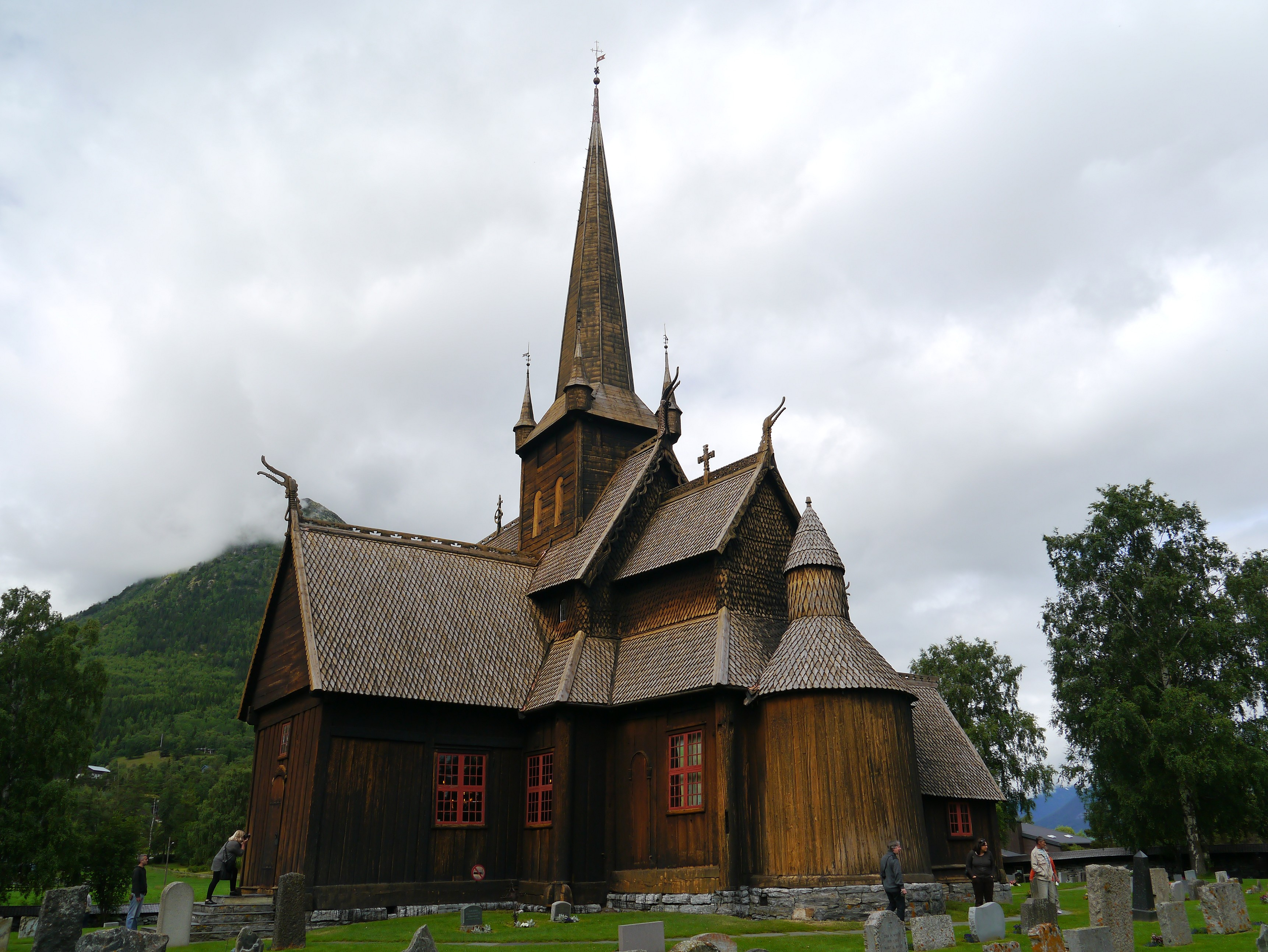 Lom Stave Church, Lom, Oppland County, Central Norway